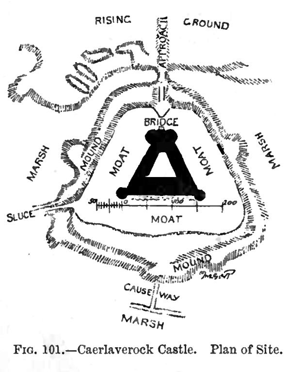 Caerlaverock Castle, Scotland.